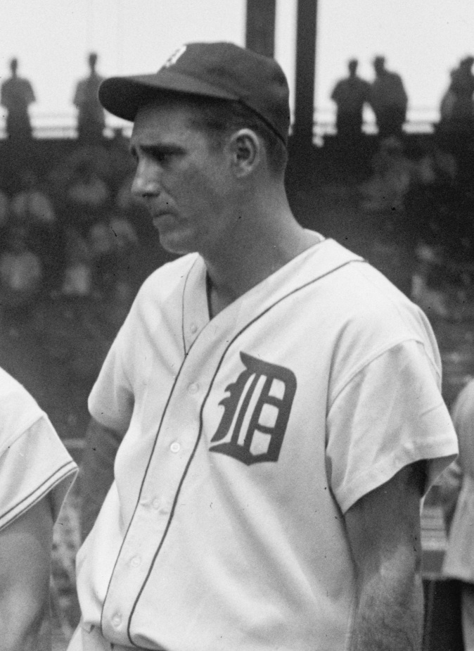 Hank Greenberg of the Detroit Tigers, cropped from a posed picture of 1937 Major League Baseball All-Stars in Washington, DC.